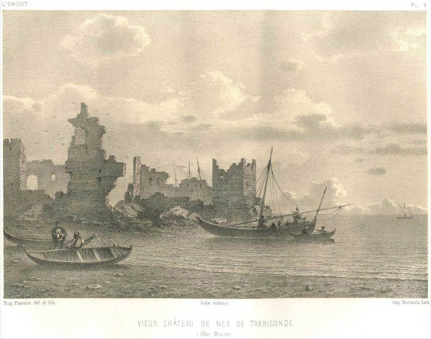 (Leonkastron?) castle in Trebizond, Turkey.